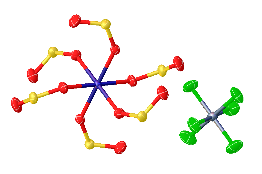 [Ni(SO2)6](AsF6)2, showing the dication and one anion